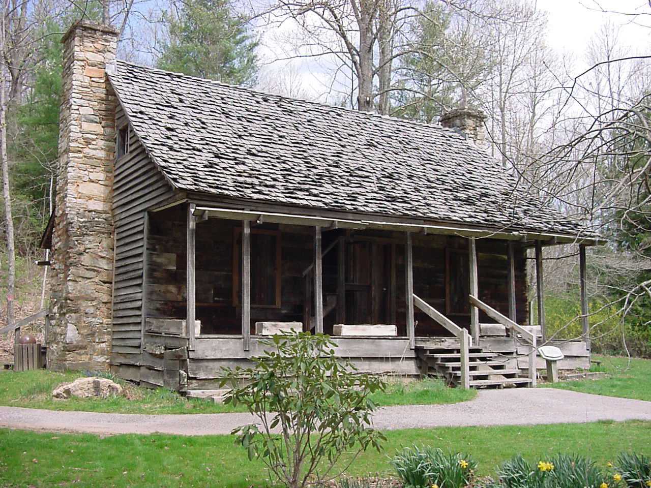 Cradle of Forestry Interpretive Association Pisgah National Forest (Transylvania County, N.C.) This was the first ranger's house, with the kitchen and bedrooms much as they were originally.